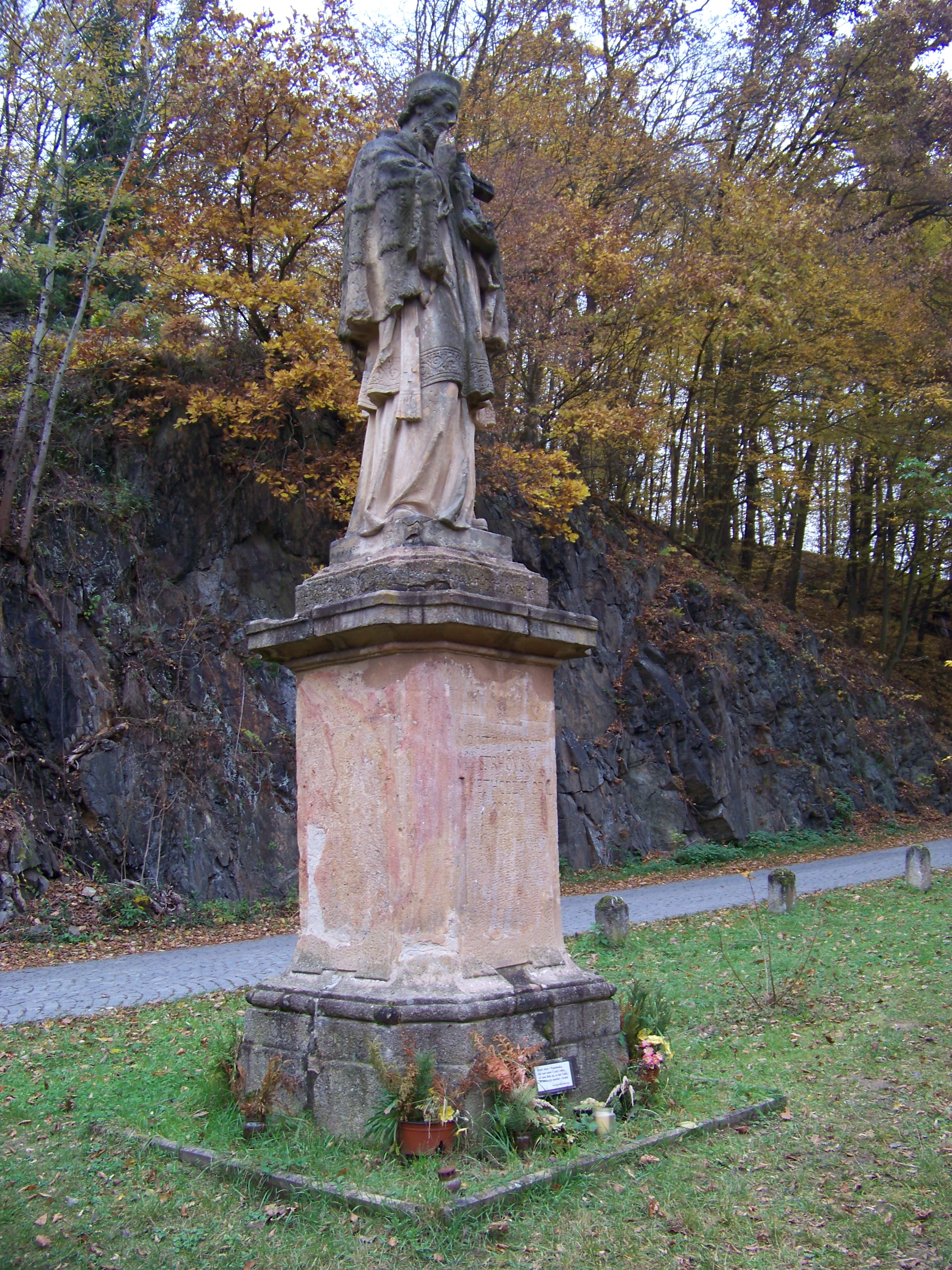 Štěchovice-Třebenice, Prague-West District, Central Bohemian Region, the Czech Republic. A replica of Saint John of Nepomuk statue above the beginn of former Saint John Torrents. - Google Maps - Google Earth